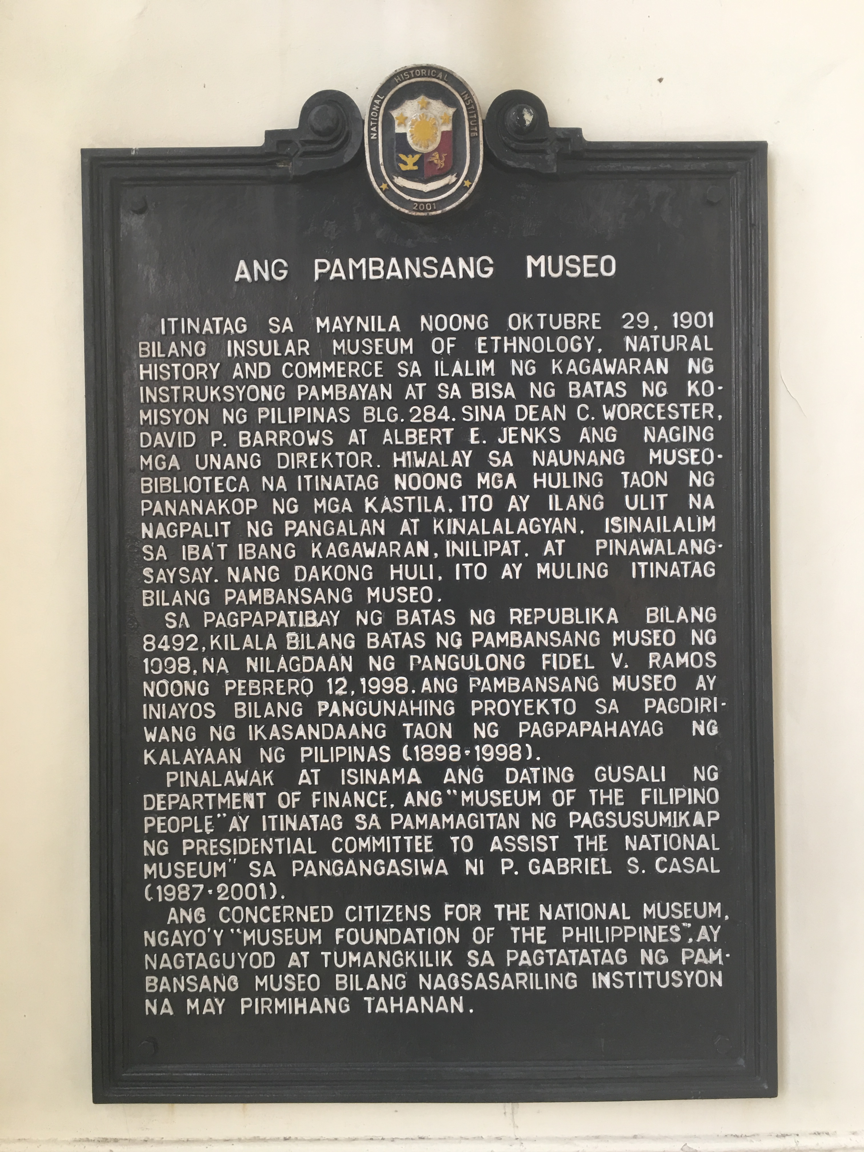 Marker of the Philippine National Museum (of Fine Arts)